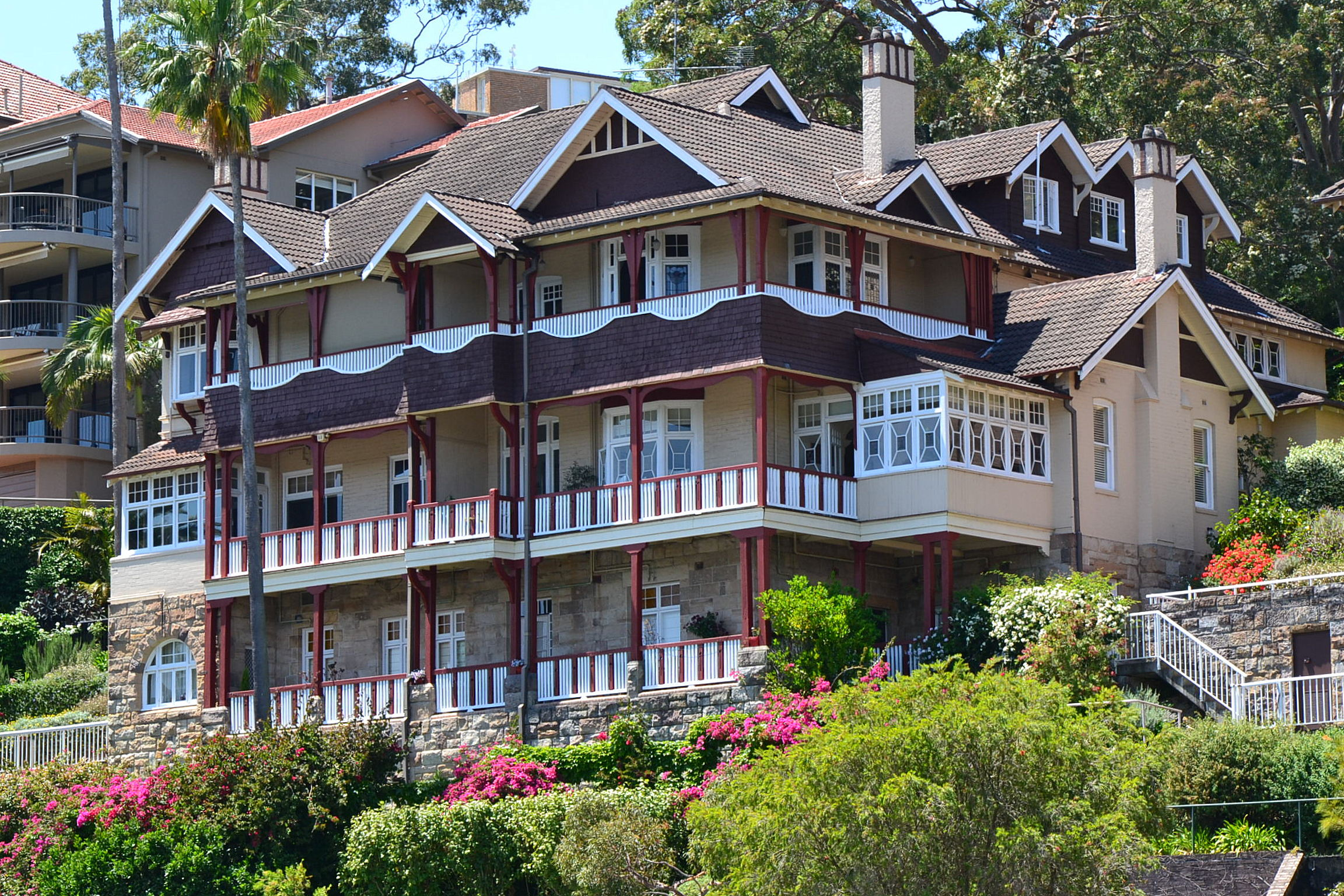 Monterey, Mosman, Sydney